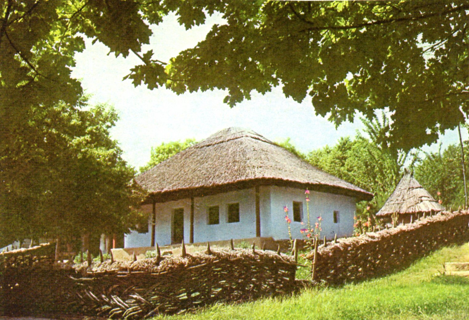 House of the Strășeni village, Moldova